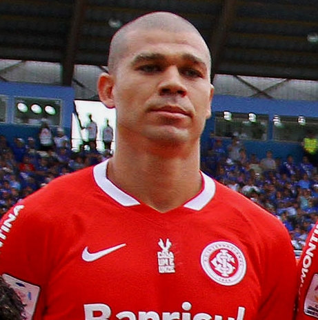 Nílton Ferreira Junior